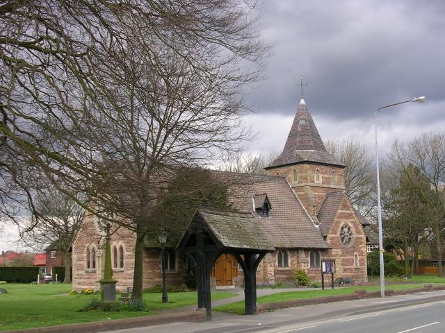 Parish church of St John the Baptist, Liverpool Road, Irlam, Greater Manchester, seen from the south